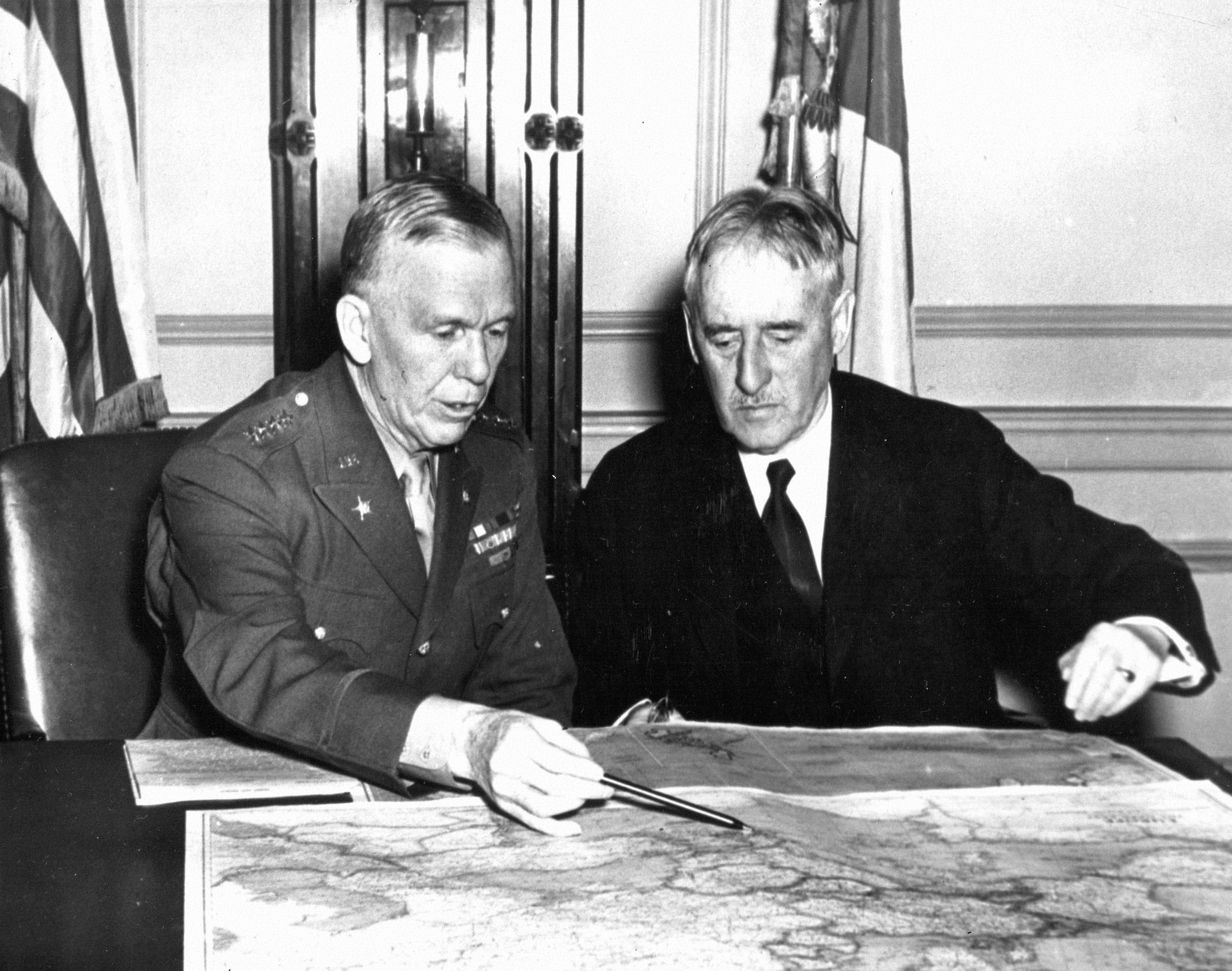 General George Marshall (L) and Secretary of Henry Stimson (R) sometime during 1942-1942, US DOE Manhattan Proj. History Page